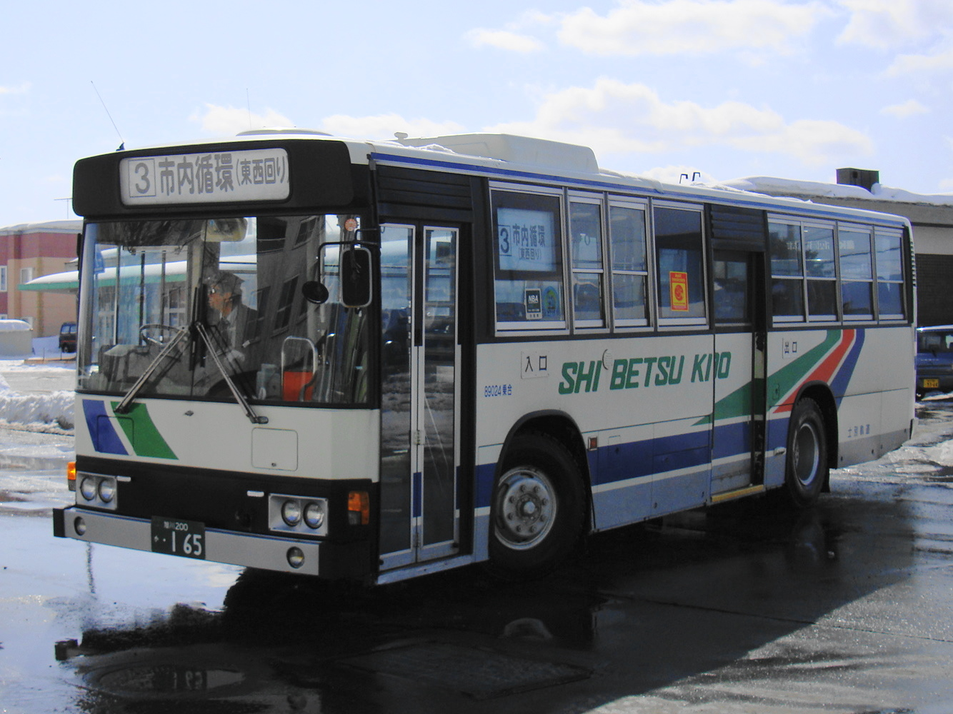 Shibetsu City loop line